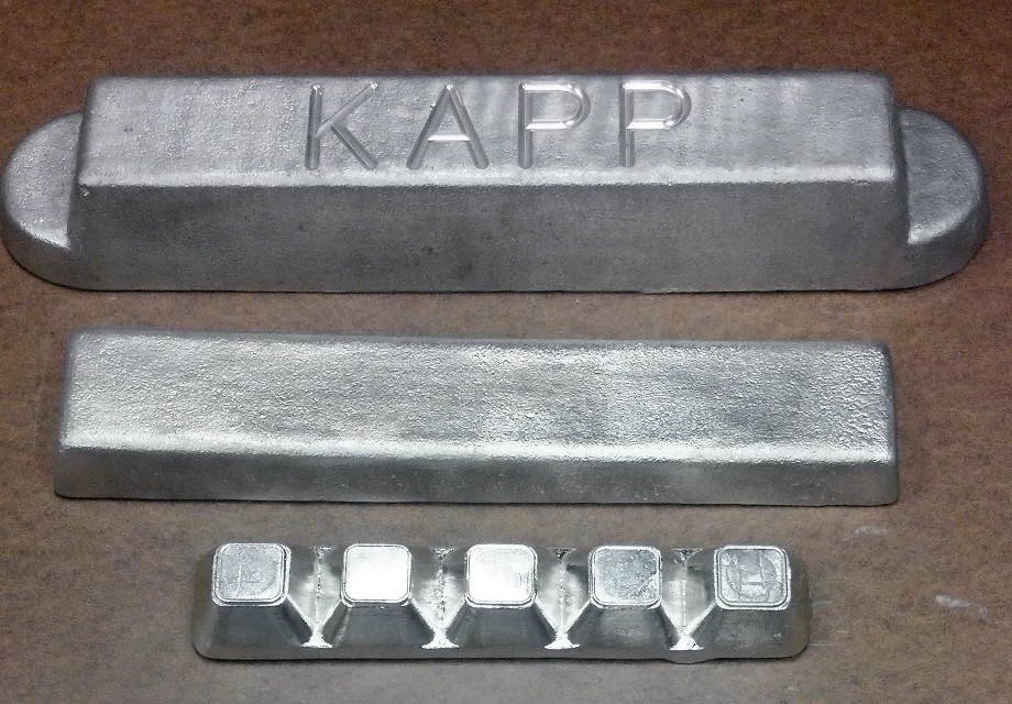 Picture of bars and pigs of DuraKapp #2 (Grade #2 Babbitt)